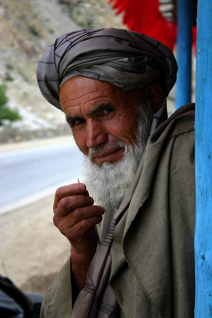 Man with toothpick wearing turban, Afghanistan